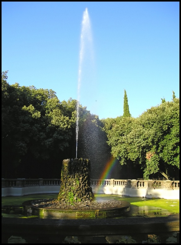 photo taken by Renato Clementi